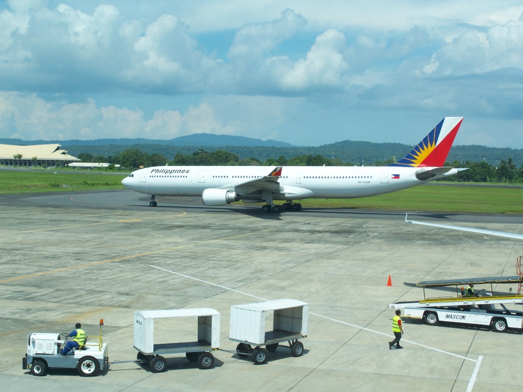 Philippine Airlines Airbus A330-301 at the airport of Davao City Cebuano: Philippine Airlines Airbus A330-301 sa Tugpahanang Pangkalibutanon sa Davao Tagalog: Airbus A330-301 ng Philippine Airlines sa paliparan ng Lungsod ng Davao